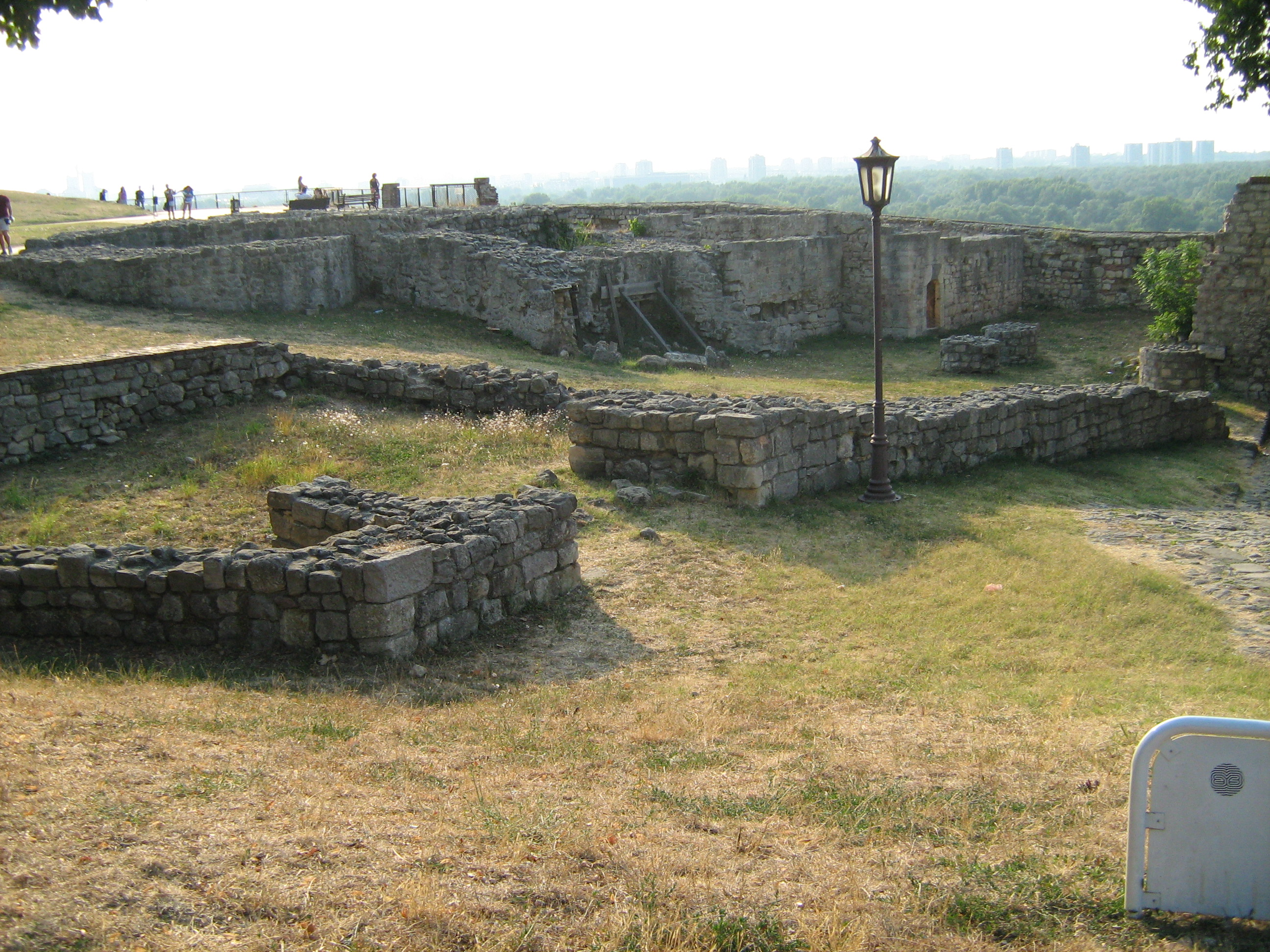 Belgrade Fortress, Kalemegdan, 2013